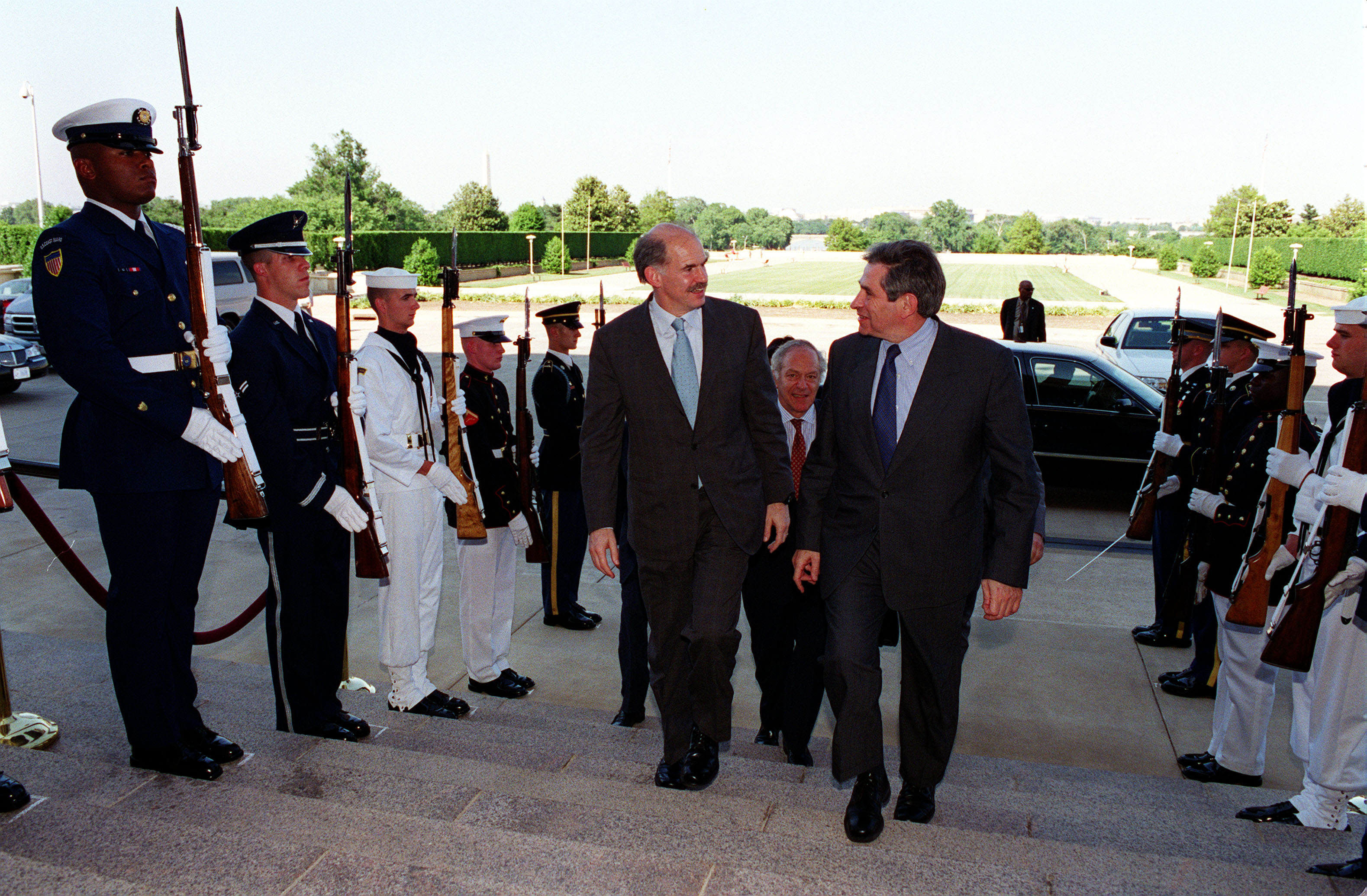 Minister of Foreign Affairs George Papandreou (left) of Greece, is escorted into the Pentagon by Deputy Secretary of Defense Paul Wolfowitz (right) May 23, 2001. The two leaders are meeting to discuss issues of mutual interest. DoD photo by Helene C. Stikkel. (Released)